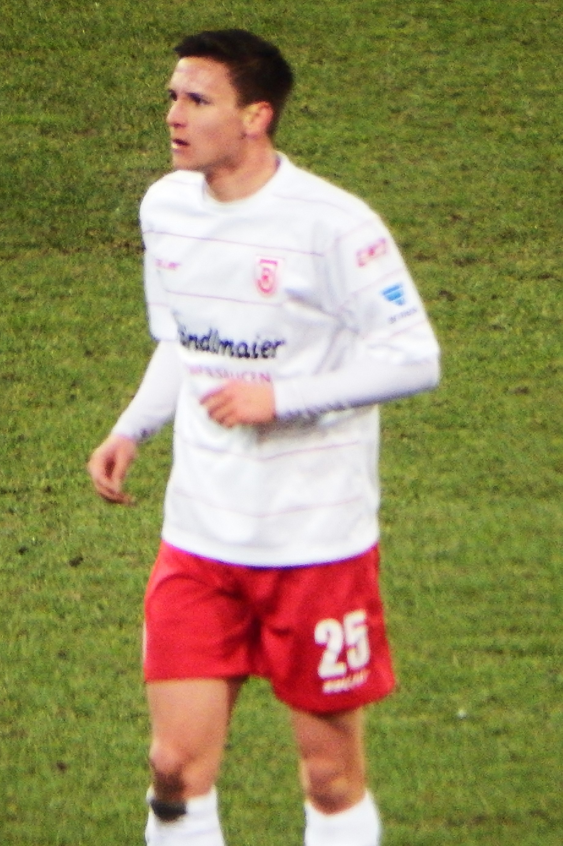 Markus Smarzoch as Player from Jahn Regensburg